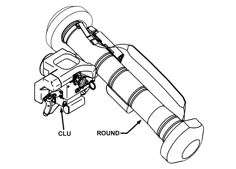 Javelin Command Launch Unit and Round